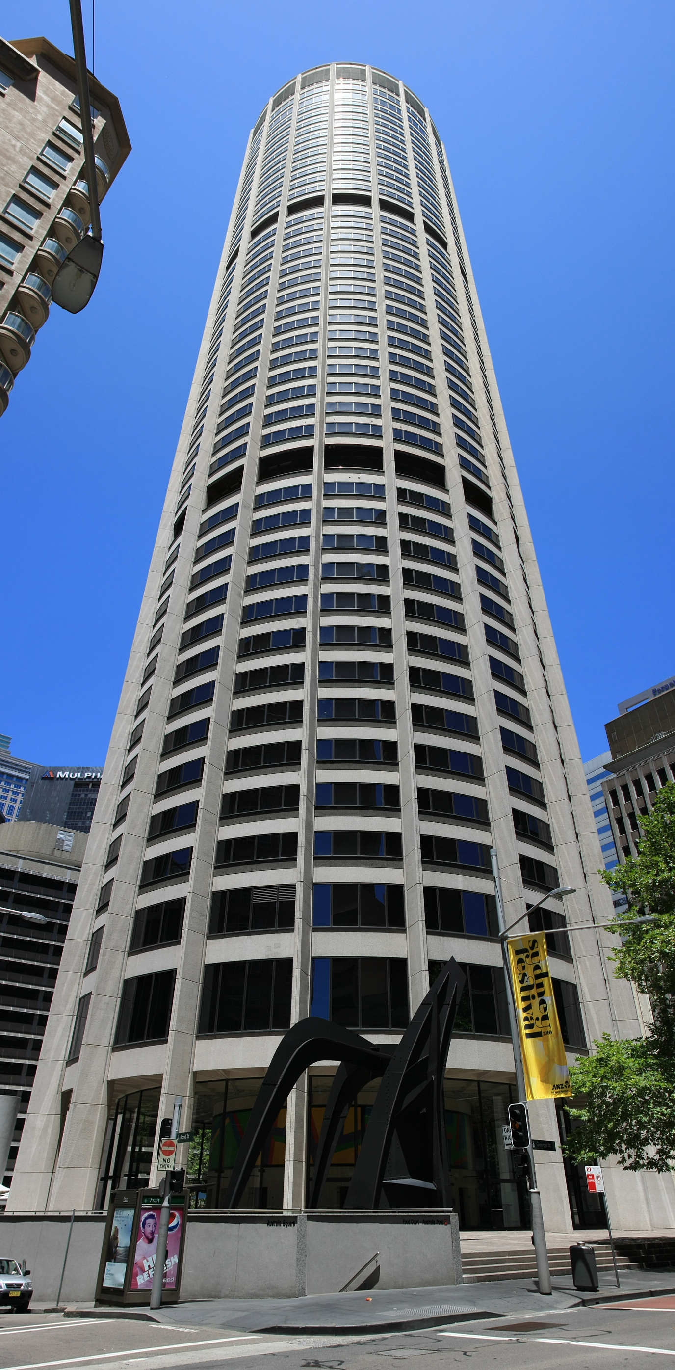 Australia Square building in George Street Sydney